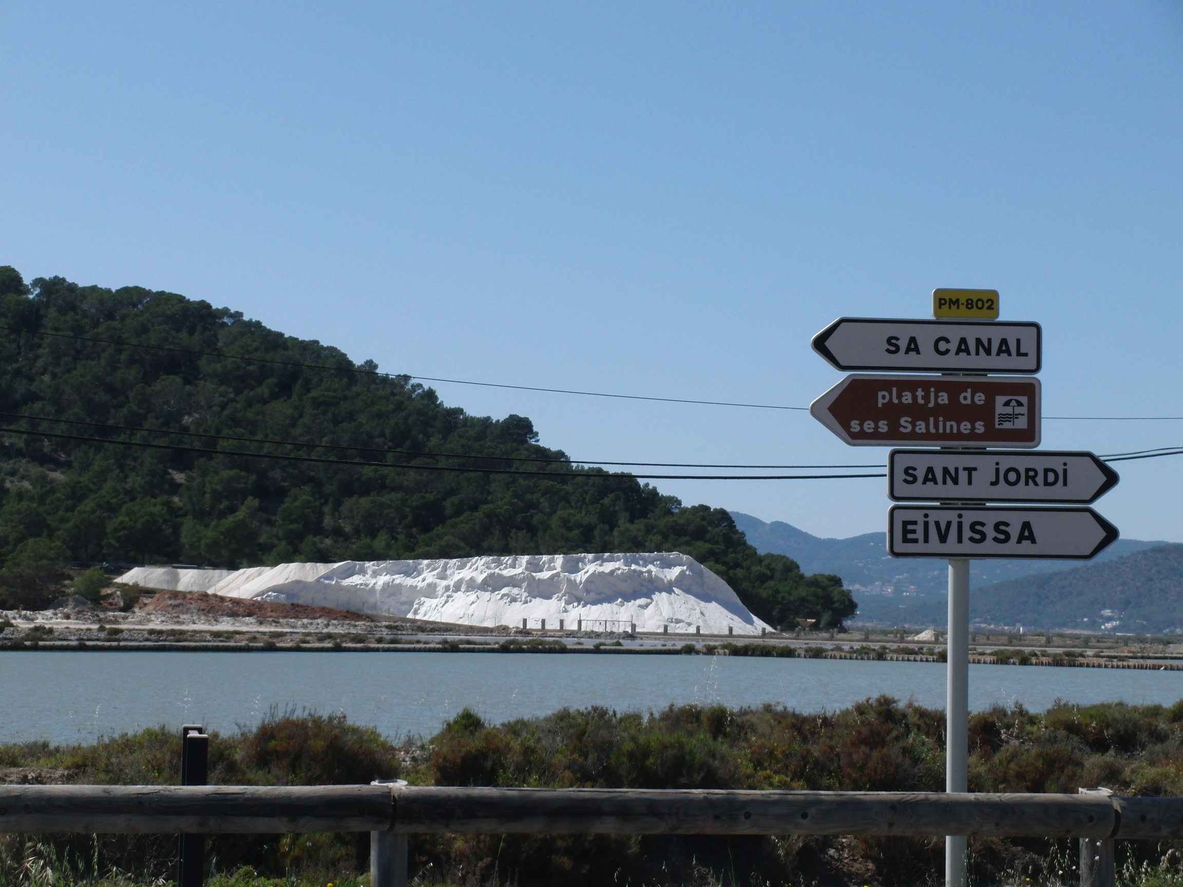 Salt of the 'Ses Salines of Ibiza